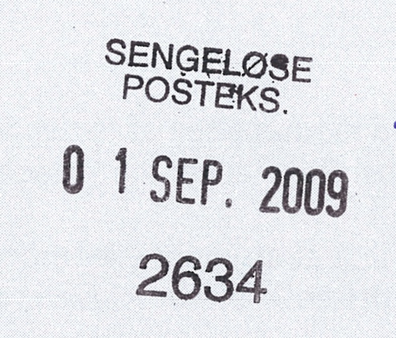 Postal Stamp from the post office in Sengeløse, Denmark